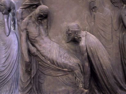 Sculpture by Frederic Marès in the Santa Maria del Mar church in Barcelona